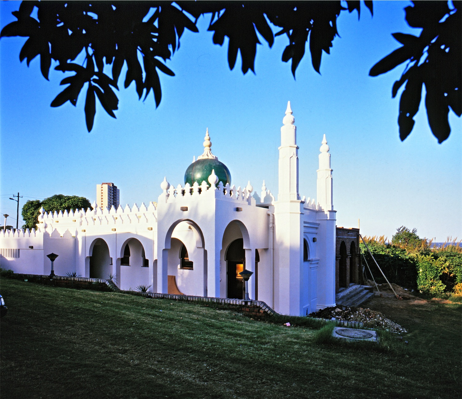 This media shows a South African Protected Site with SAHRA file reference 9/2/407/0049.